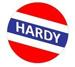 ..den tidligere storheten Hardy, fotballklubben som forsynte selveste Bronselaget med viktige spillere på 30-tallet…noe for øvrig SK Brann IKKE så seg i stand til å gjøre. Hardy er en stjerne i kategorien “fotballklubber som forsvant”